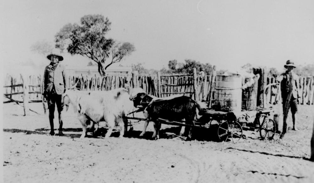 Two boys with a goat team, Thylungra Station, 1924. Two boys pose with a goat team at Thylungra Station, 1924. The boys are dressed in work-clothes, wearing hats, jackets and shorts. Four goats are tethered to a metal-wheeled wagon laden with some drums, possibly filled with water. The group stands in an enclosure bound by a wooden fence. Some trees and part of a building can be seen in the background.